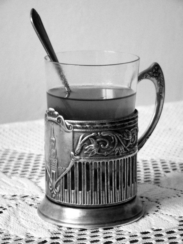 Podstakannik